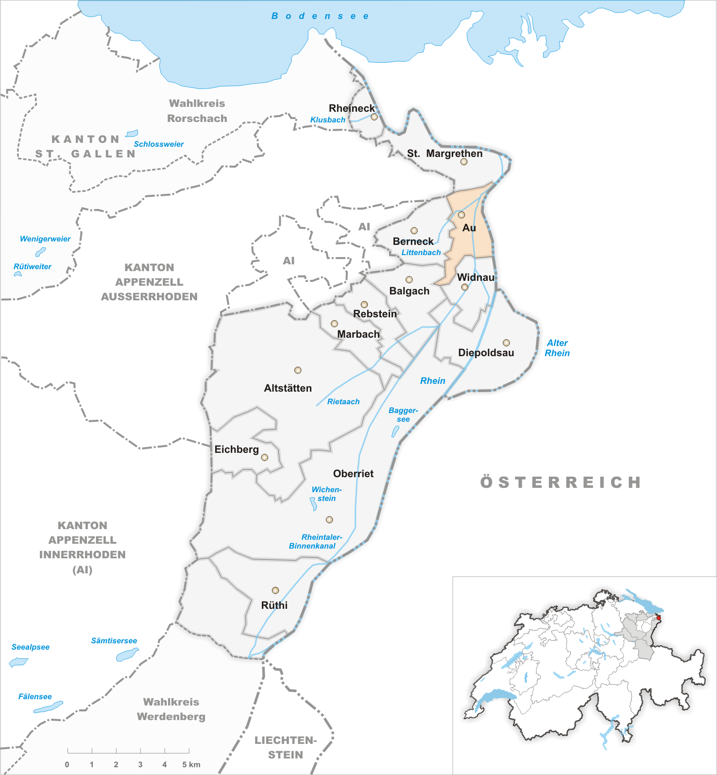 Municipality Au